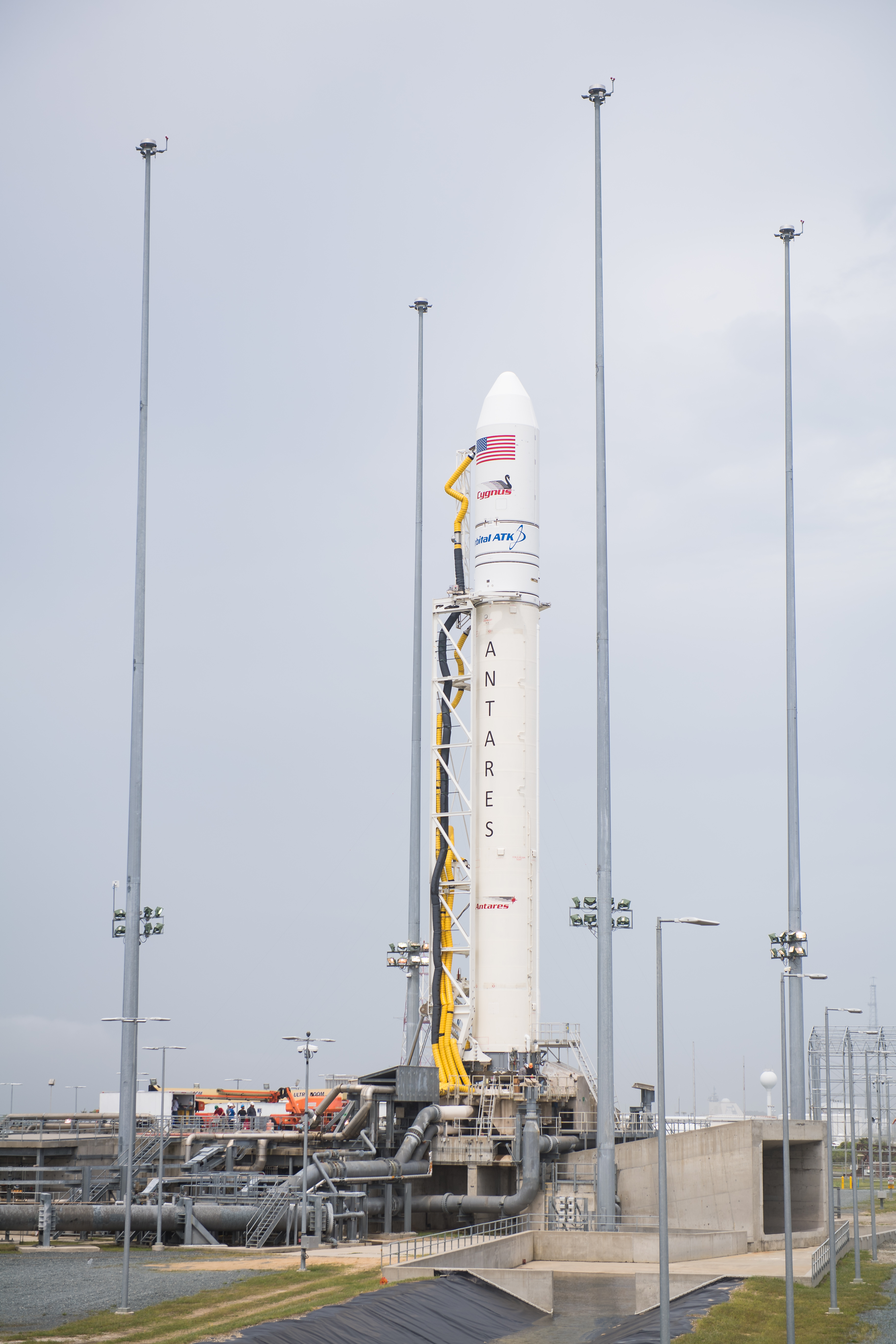 The Orbital ATK Antares rocket, with the Cygnus spacecraft onboard, is seen at launch Pad-0A, Saturday, May 19, 2018 at Wallops Flight Facility in Virginia. The Antares will launch with the Cygnus spacecraft filled with 7,400 pounds of cargo for the International Space Station (ISS), including science experiments, crew supplies, and vehicle hardware. The mission is Orbital ATK's ninth contracted cargo delivery flight to ISS for NASA.